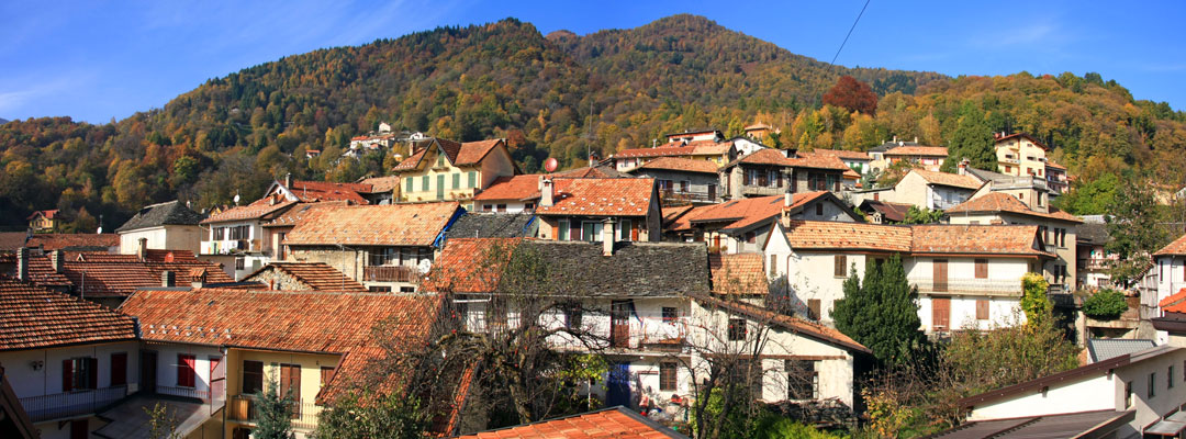 Panorama of Quarna Sotto, Verbania, Italy